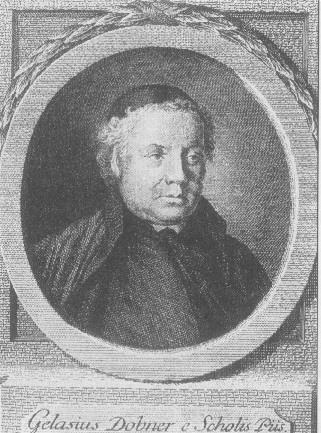 Gelasius Dobner